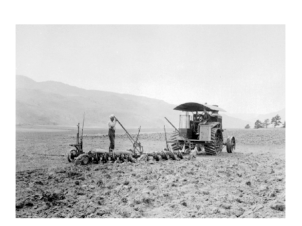 Photo taken 1910 Photographer: Unknown Source #D-03174 [1]